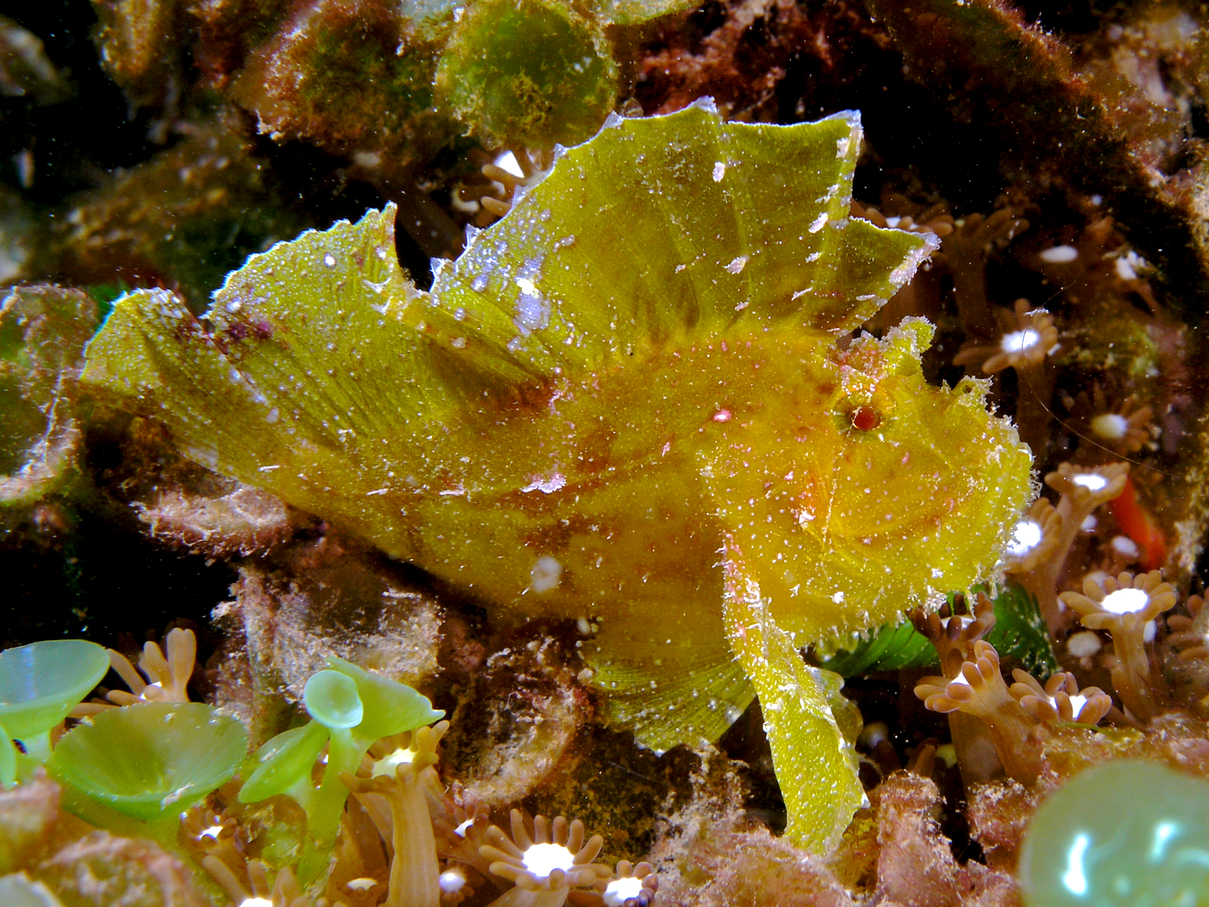 Taenianotus triacanthus (Yellow leaf scorpionfish)